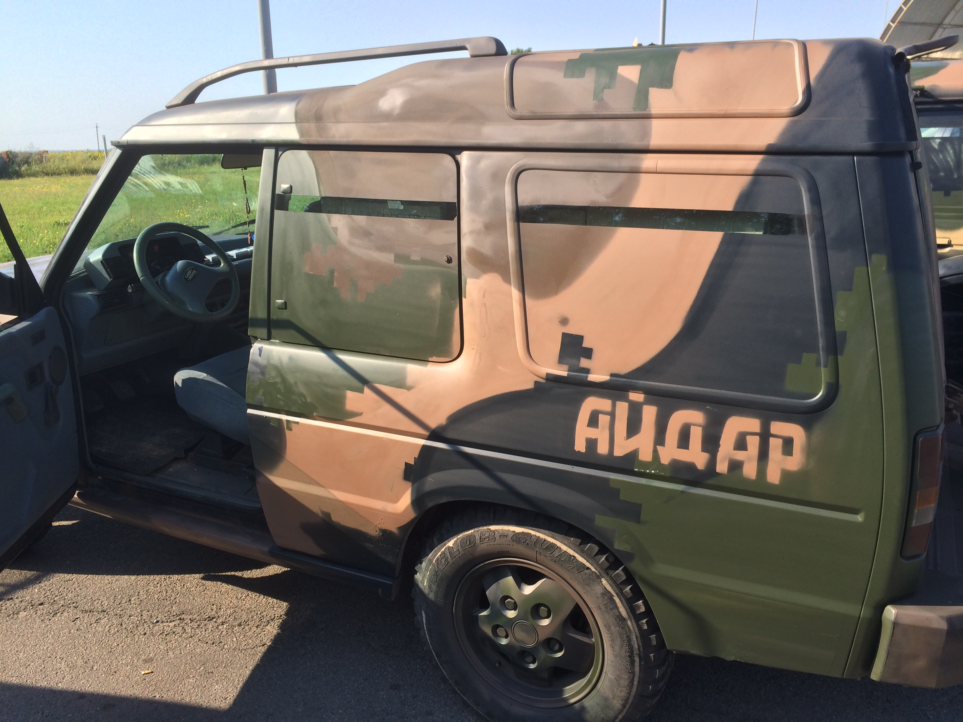 Aidar Battalion combat car brought from Poland by volunteers and tuned for combat service by volunteer mechanics in Kyiv, Ukraine. The car was delivered by a group of volunteers to Aidar base in Schastya, Luhanska oblast on July 27, 2014.